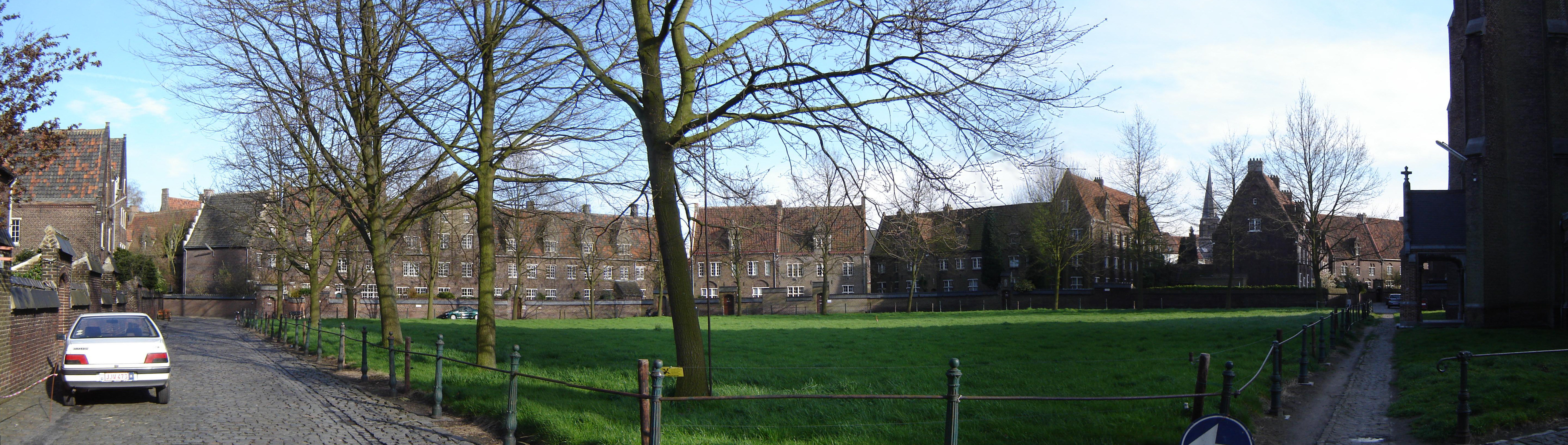 Sint-Beggaplein square in the beguinage Begijnhof Sint-Amandsberg. Sint-Amandsberg, Gent, East Flanders, Belgium